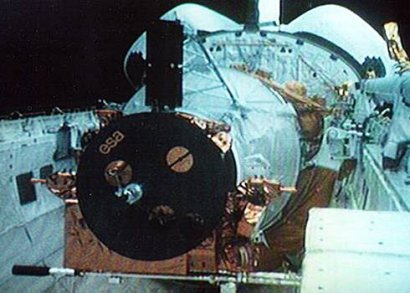 A frame from television footage of the joint NASA-European Space Agency Ulysses spacecraft and its Intertial Upper Stage in the payload bay of Space Shuttle Discovery during the STS-41 mission.